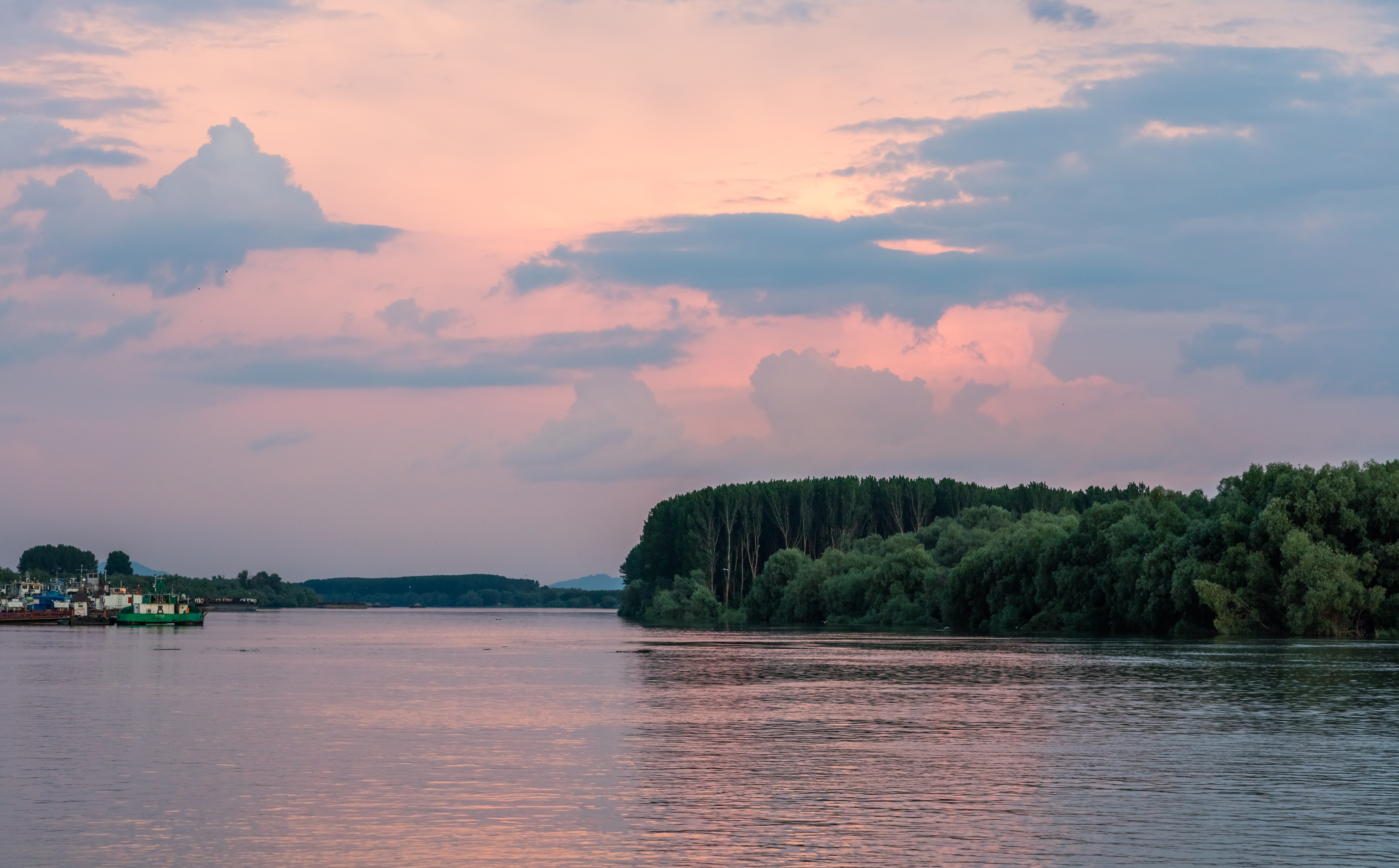 Dunarea Veche natural protected area, Macin, Romania